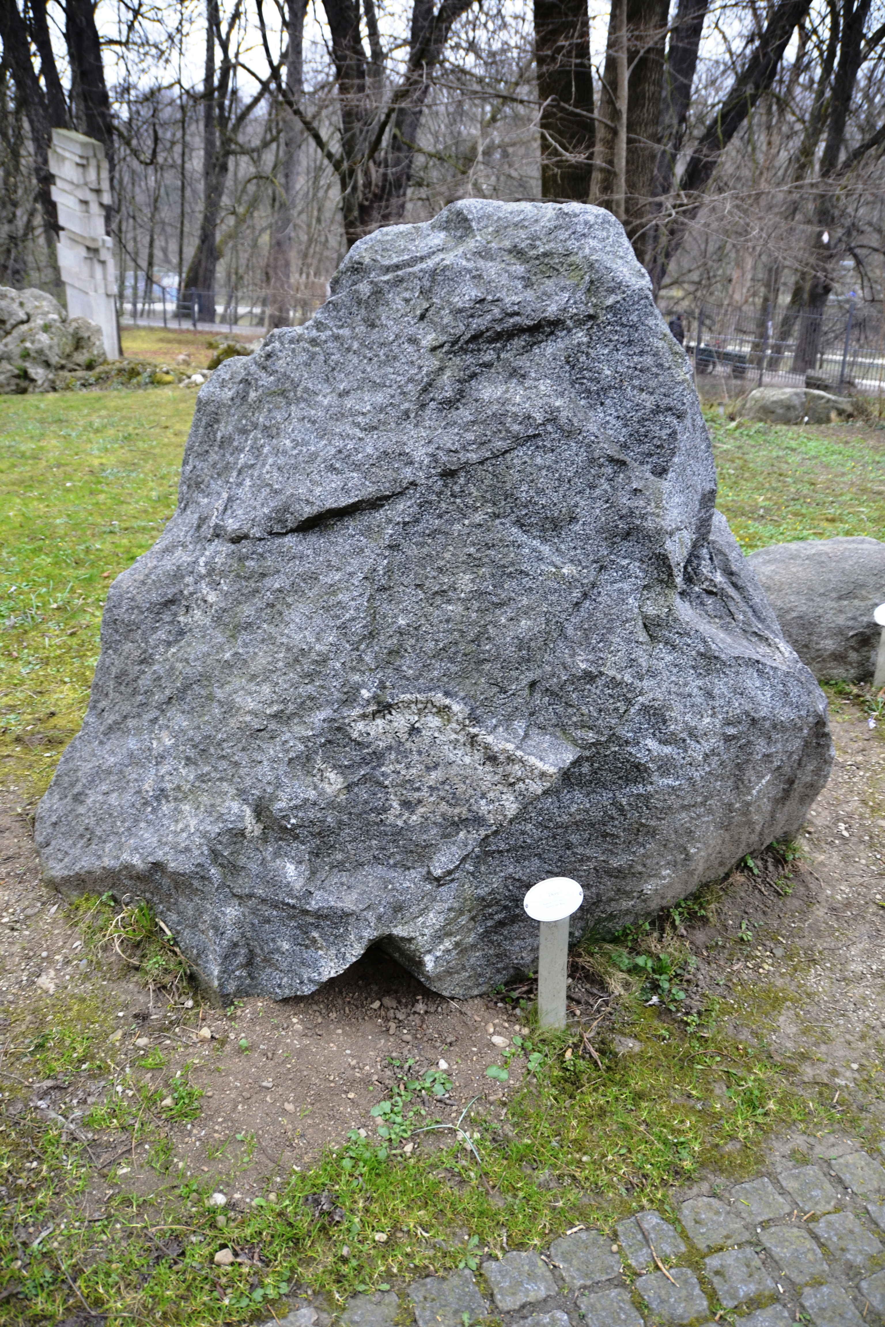 The geological public collection at the Alpines Museum in Munich.